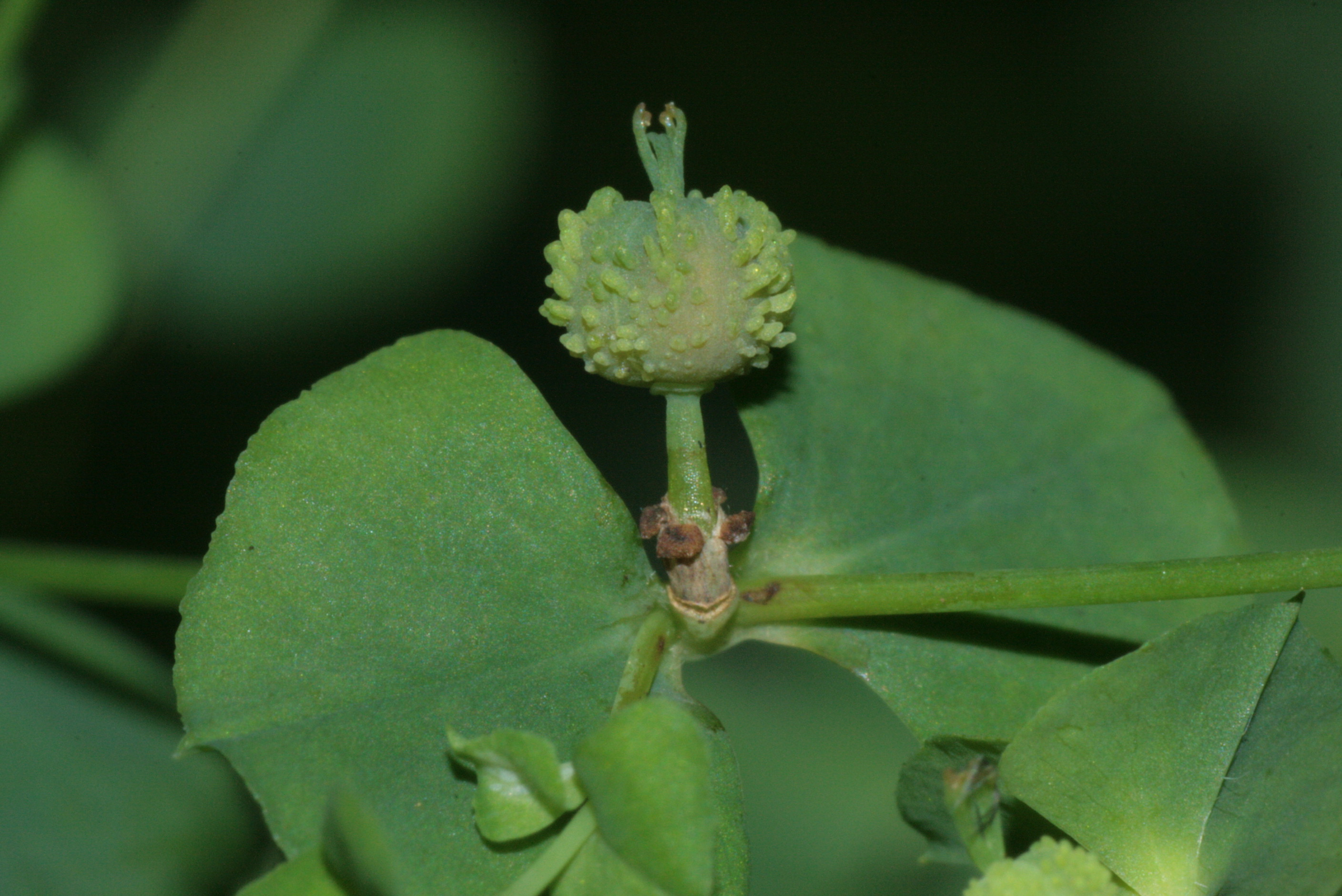 Euphorbia stricta